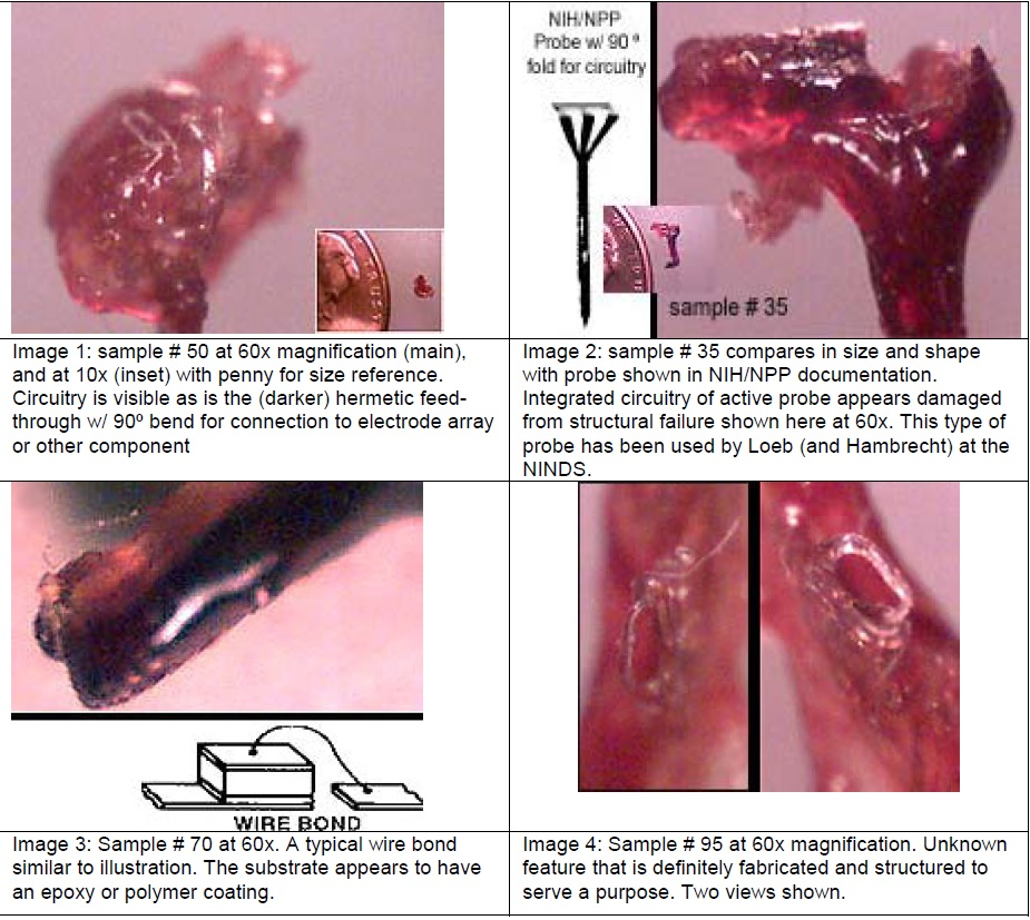 میکروچیپ های خارج شده از بدن